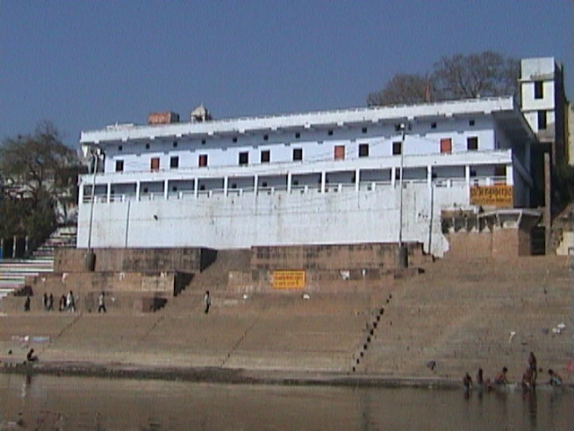 See Varanasi Development Cooperation Handbook/Stories/Responsible Development - Varanasi The Varanasi Heritage Dossier Kautilya Society Mediendatei abspielen Vrinda Dar - How we got involved in heritage protection of Varanasi